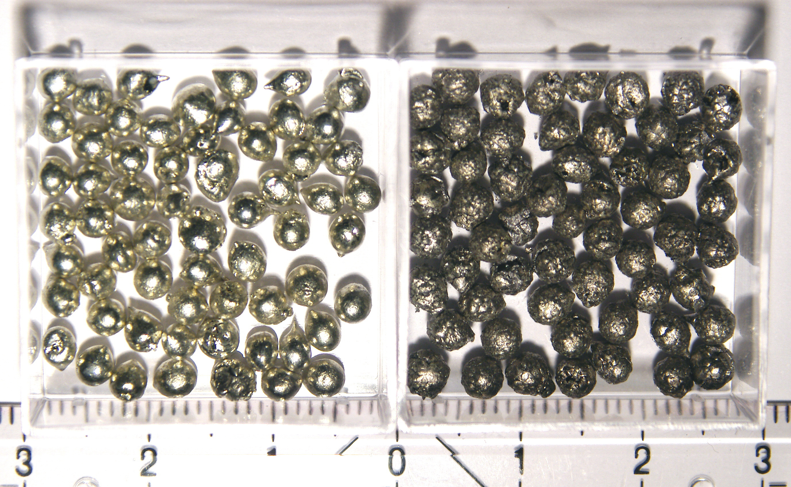 purest tin 99,999 % = 5N, beta (left, white) and alpha (right, gray) allotropes.